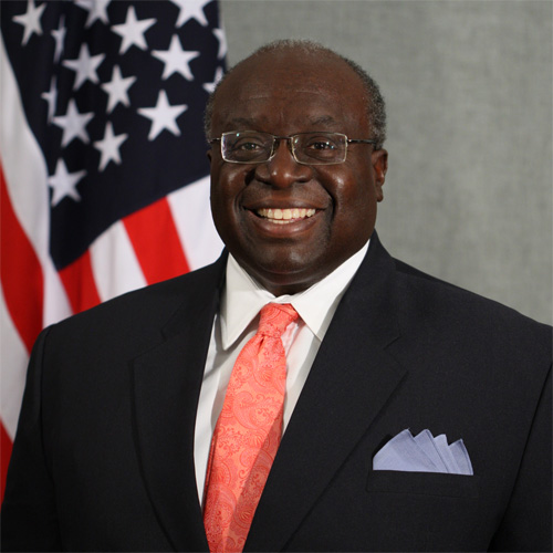 Official photo of U.S. Ambassador to the Philippines Harry K. Thomas, Jr.